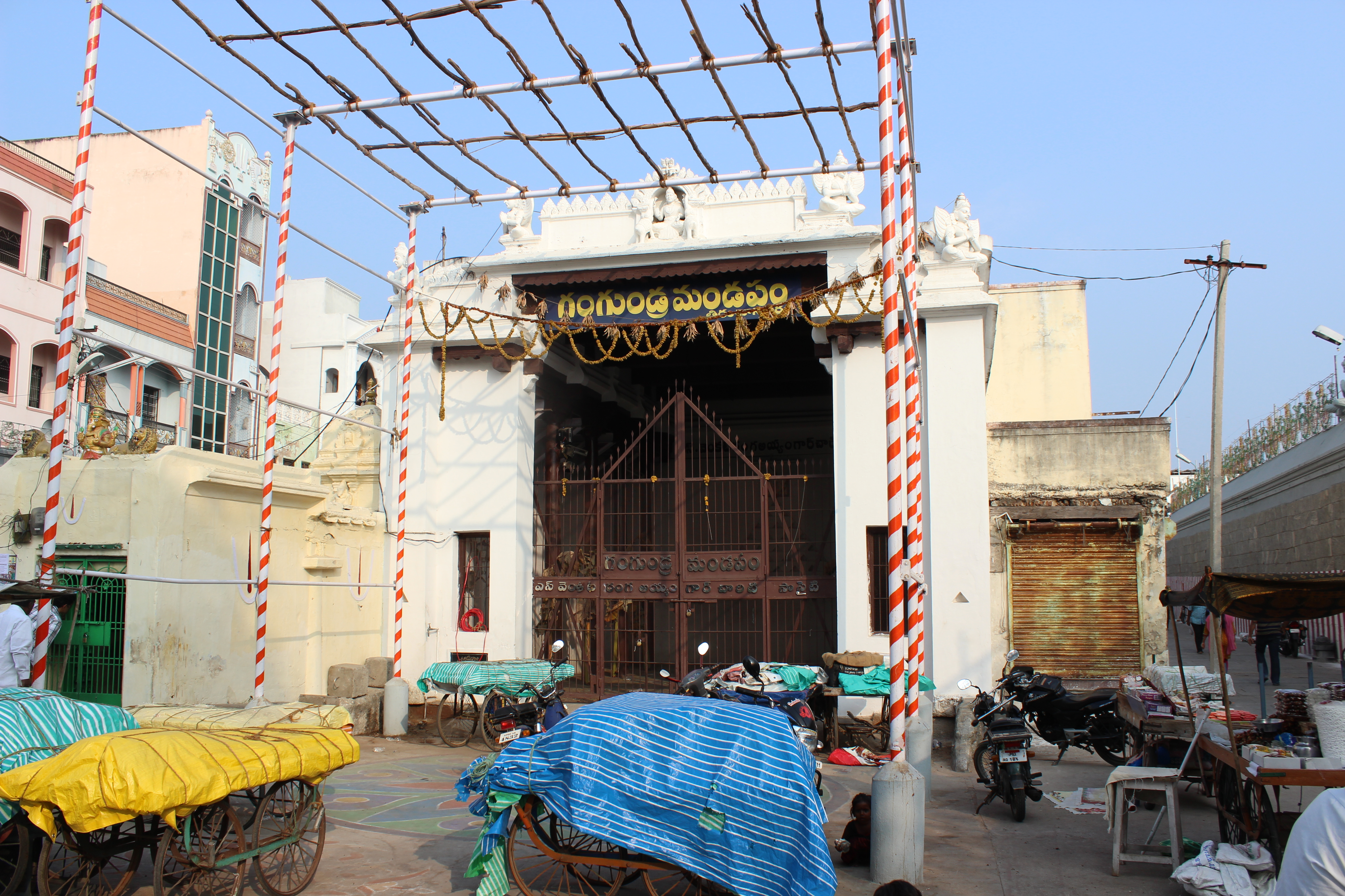 Thiruchanur